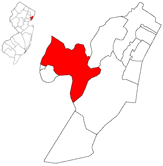 Map highlighting Kearny within Hudson County